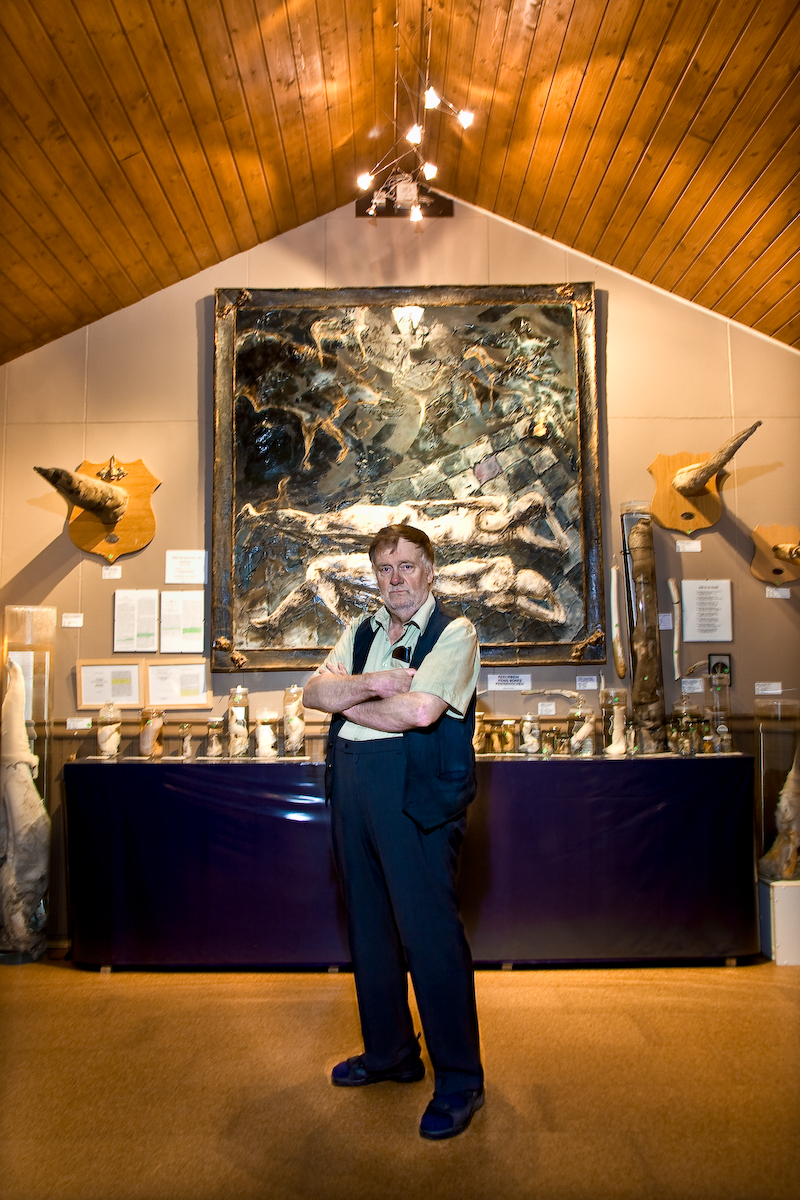 Sigurður Hjartarson, curator of the Icelandic Phallological Museum from 1997-2011.